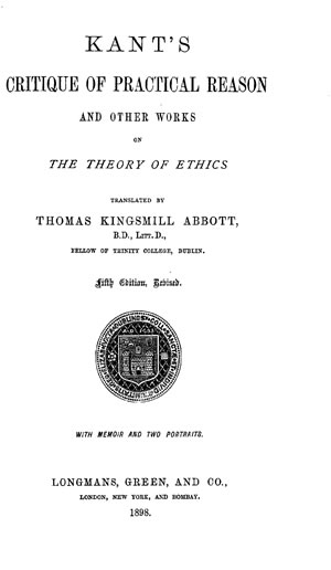 Book cover for Critique of Practial Reason.